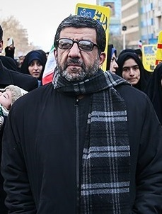 Ezatolah Zarghami in anniversary of 1979 Revolution parade.